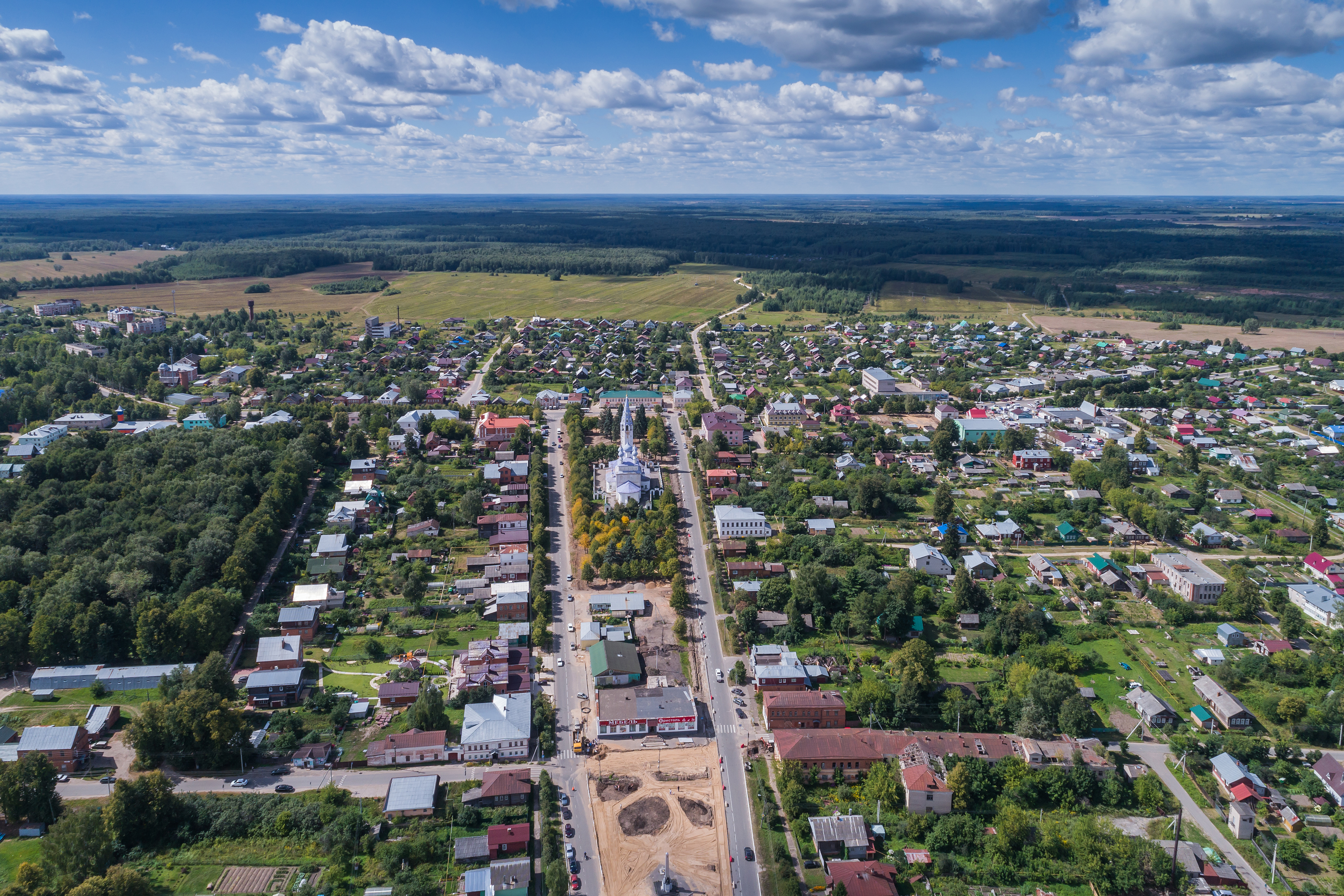 Aerial photo of Palekh, Ivanovo Oblast, Russia.